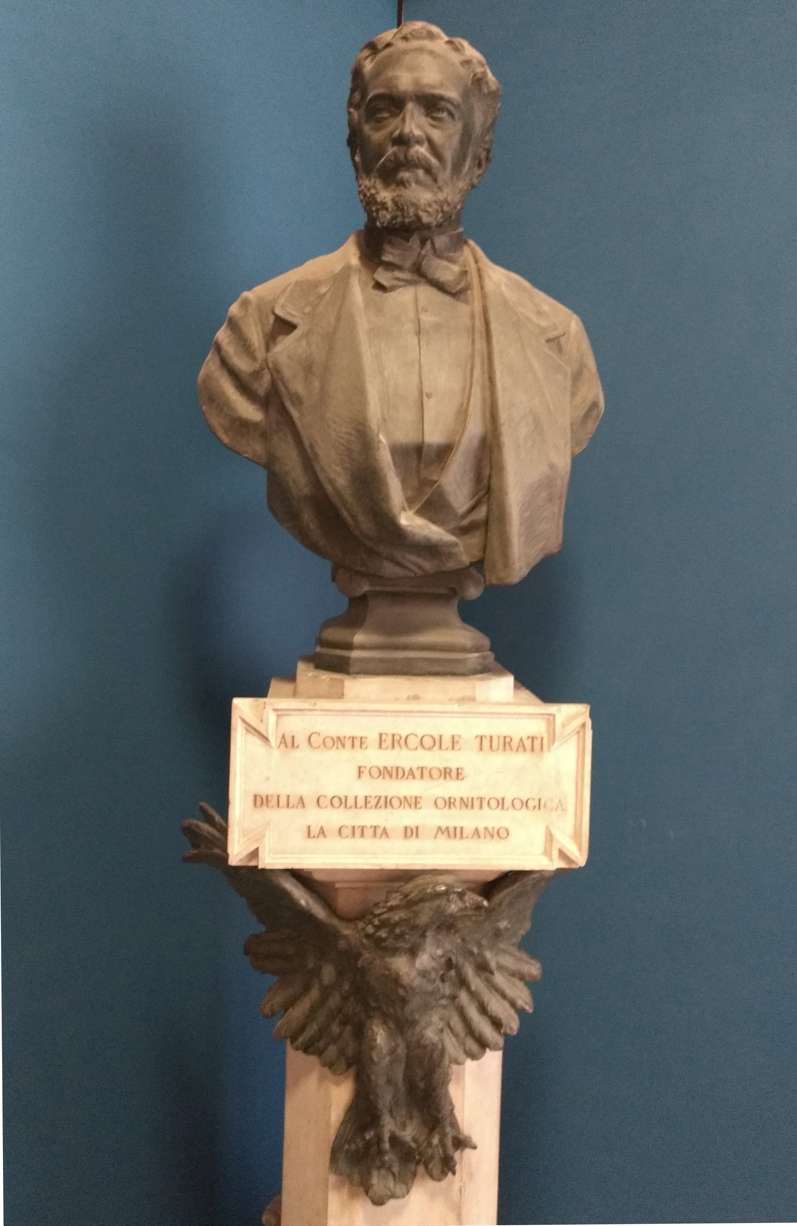 Ercole turati bust in Milano museum, made in 1898 by Francesco Confalonieri (1850-1925) and inaugurated on 18 April 1898 by Giuseppe Vigoni.